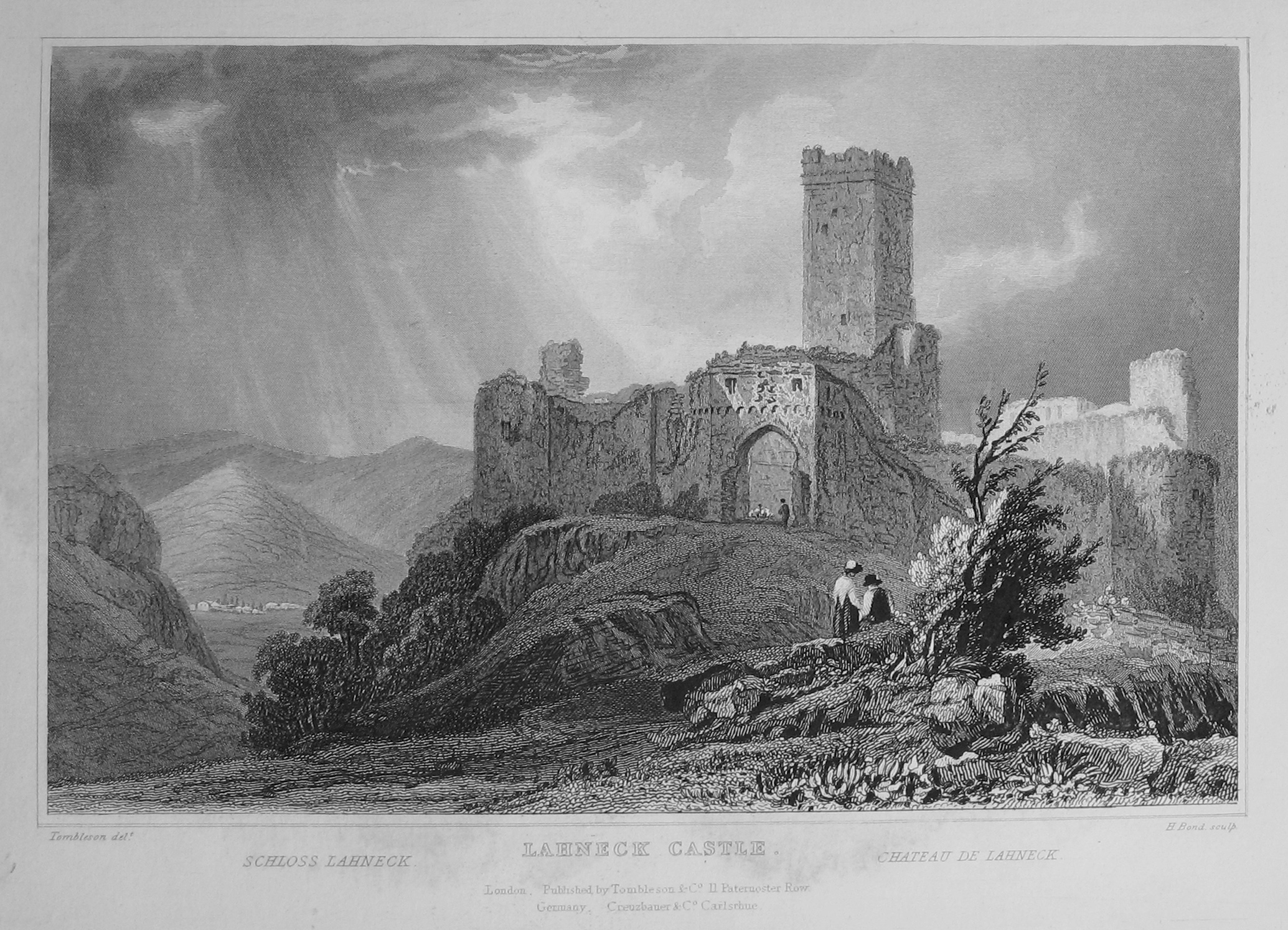 Steel engraving from "Views of the Rhine" by William Tombleson (around 1840): Lahneck Castle